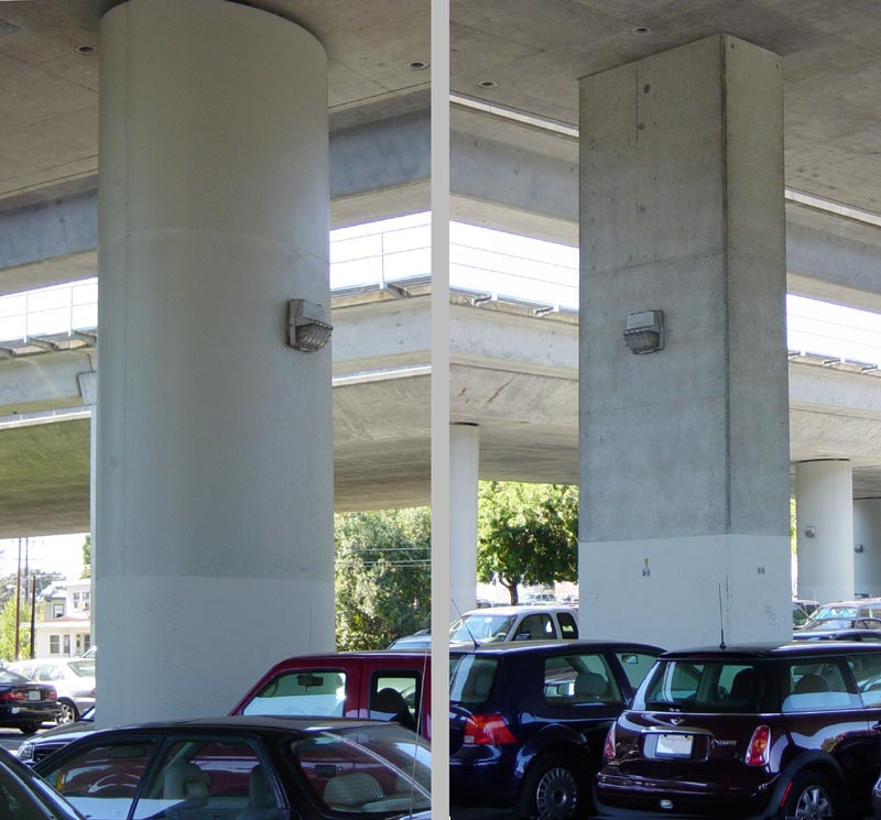 Seismic retrofit of rectangular column by elliptical steel enclosure with concrete grouting on left subimage. Unmodified column on right. In this location, not all columns required modification to obtain sufficient seismic resistance in the overall structure. These images were taken in the BART Rockridge station western parking lot under State Route 24 eastbound in September 2004. They show two separate BART track viaducts and westbound 24 in background.